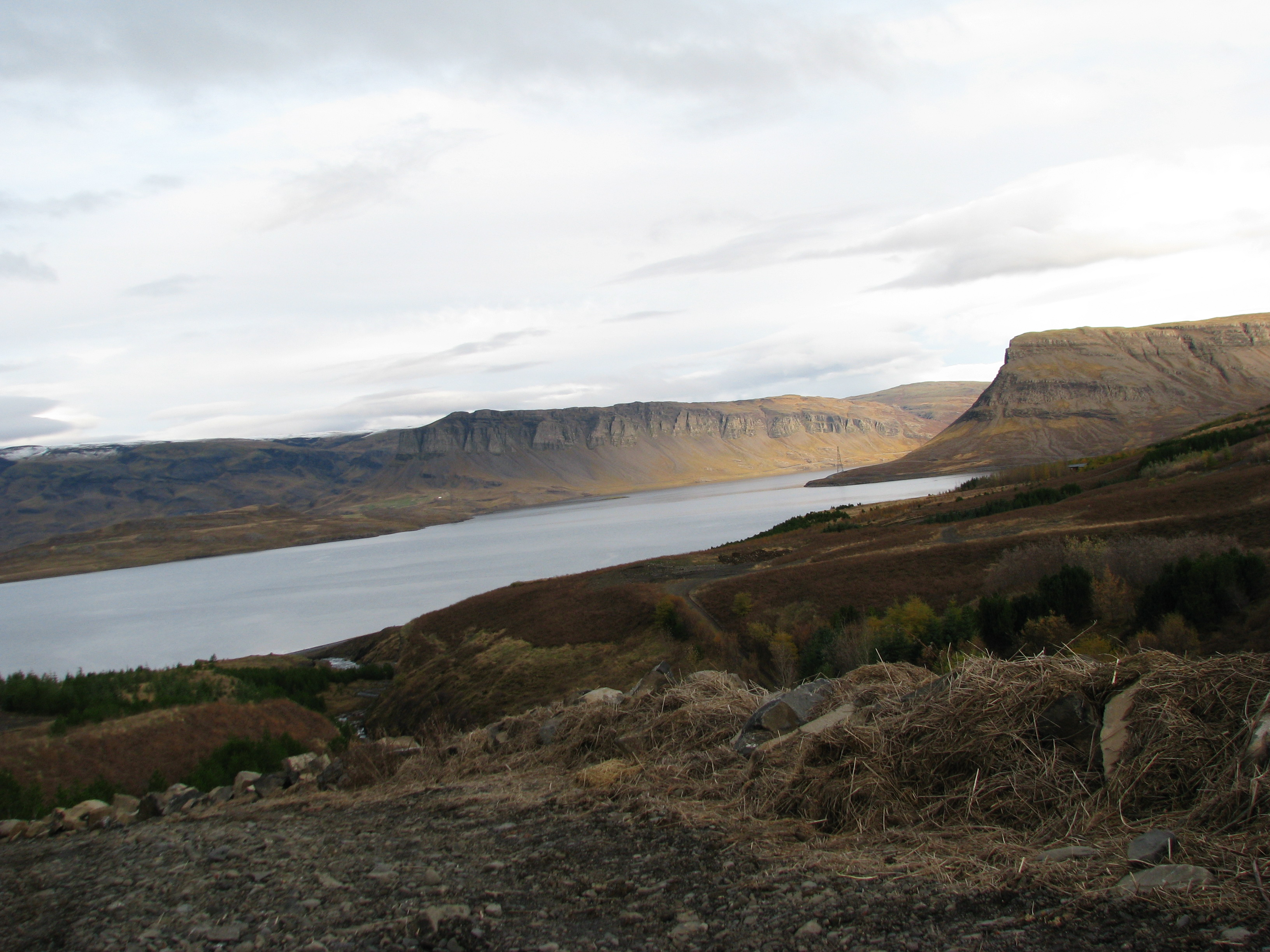 Hvalfjordur, a fjord in west Iceland.